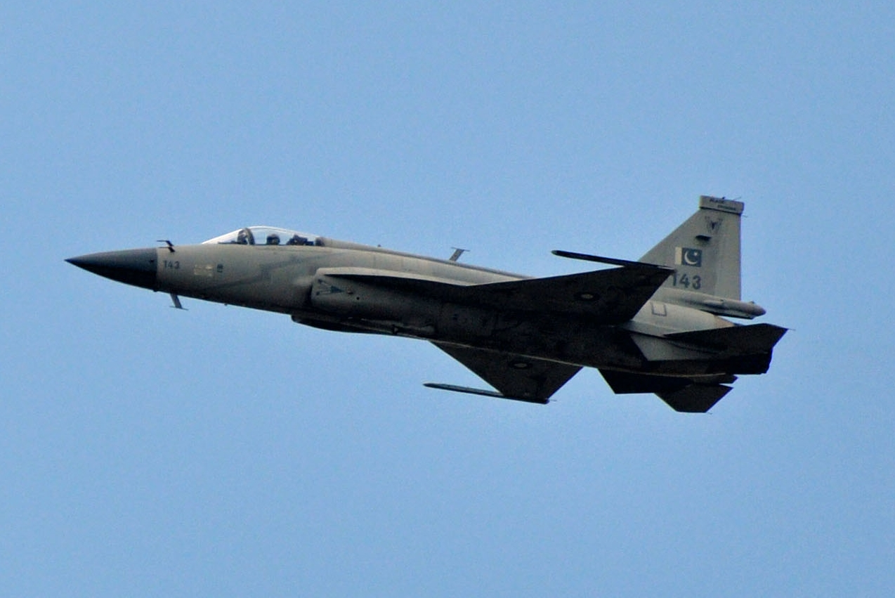 PAKISTAN AIR FORCE SIAE 2015